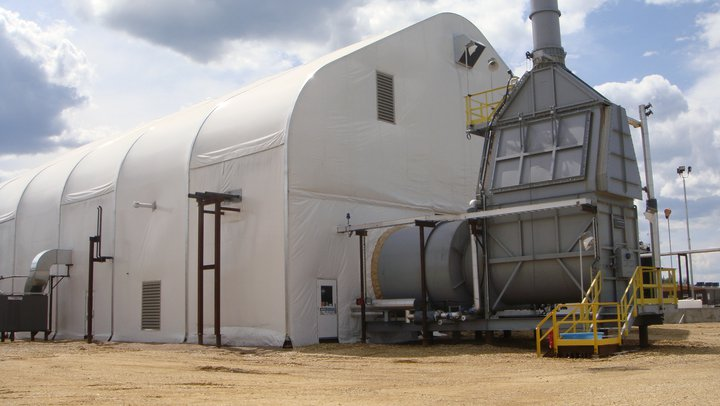 Once-Through Steam Generator (OTSG)